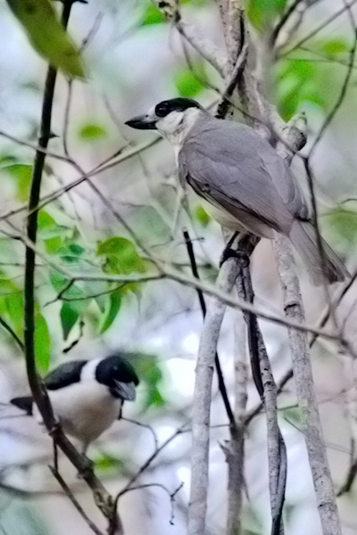 Van Dam's Vanga at Ankarafantsika, Madagascar